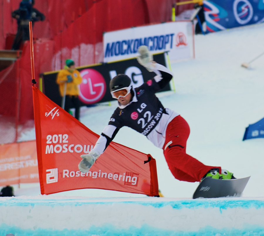 Snowboard LG FIS World Cup Moscow 2012